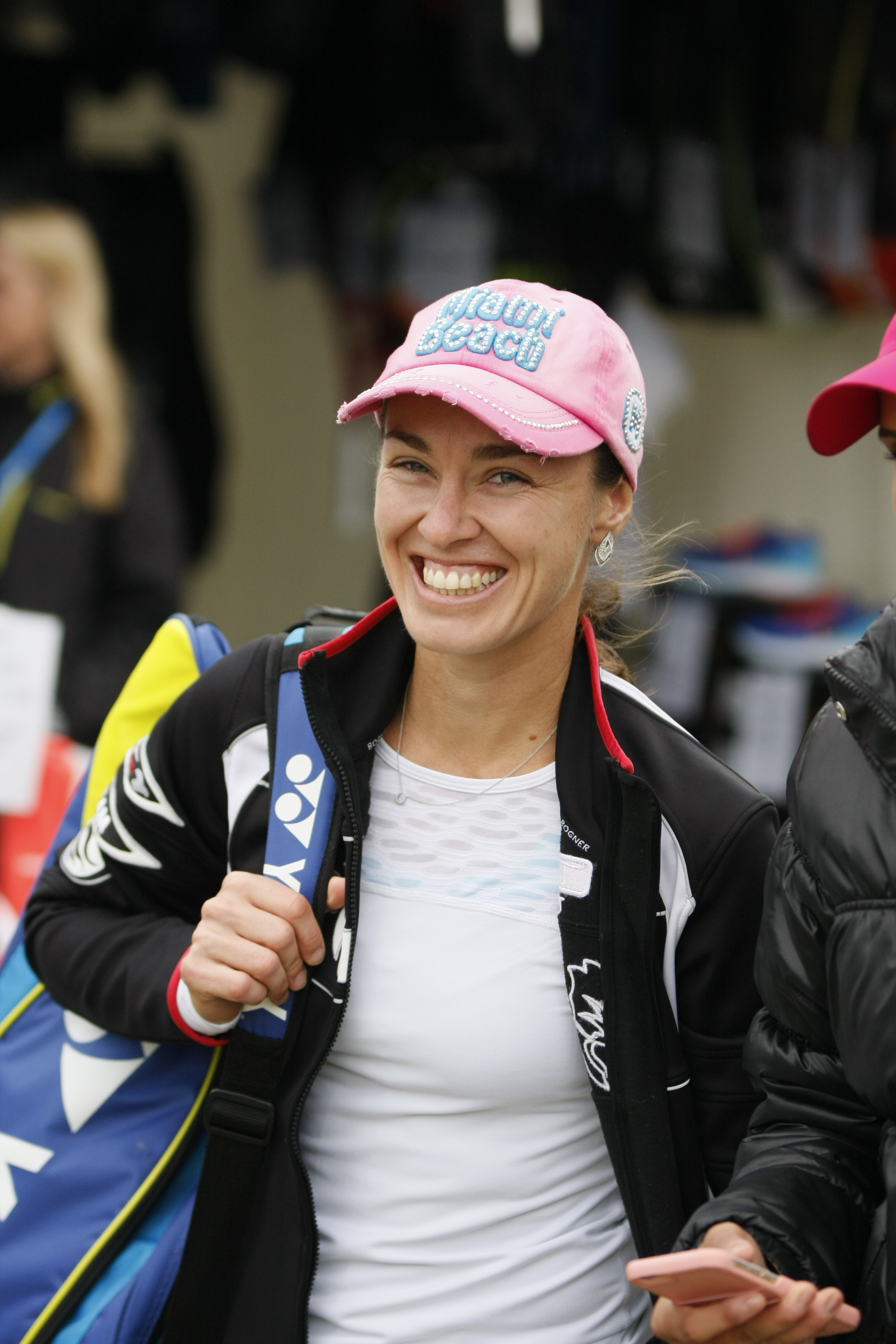 Aegon International Tennis, Devonshire Park, Eastbourne June 2015